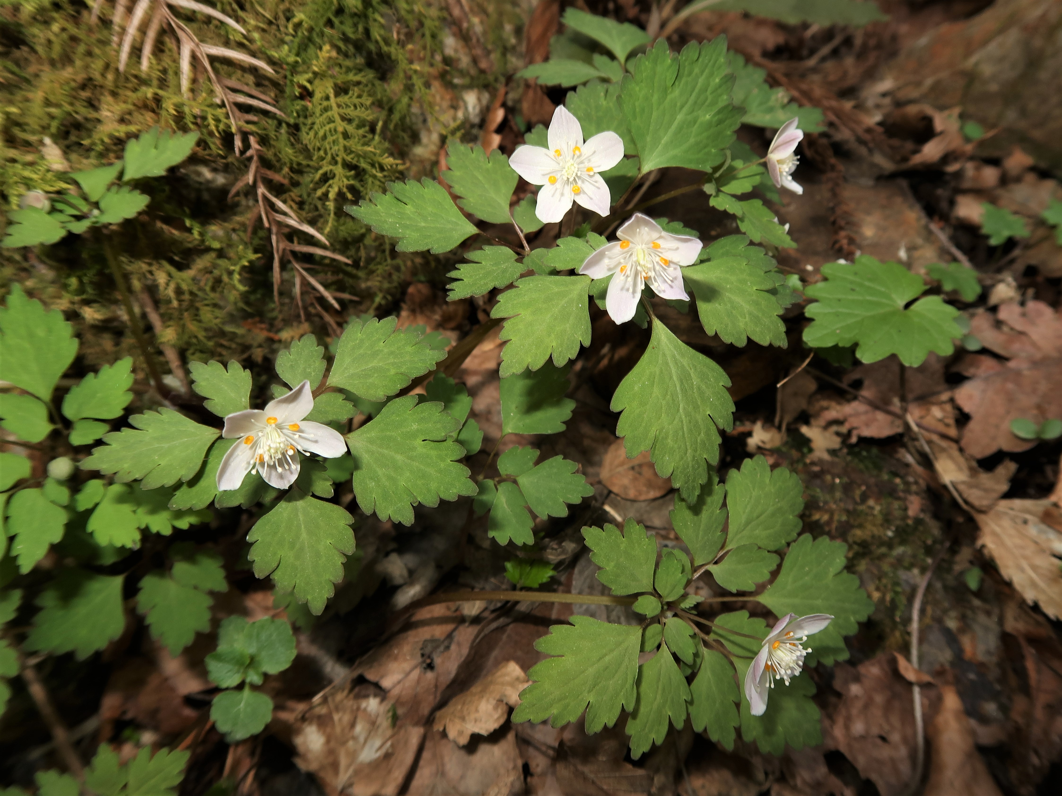 Dichocarpum hakonense, Tono area, Gifu pref., Japan